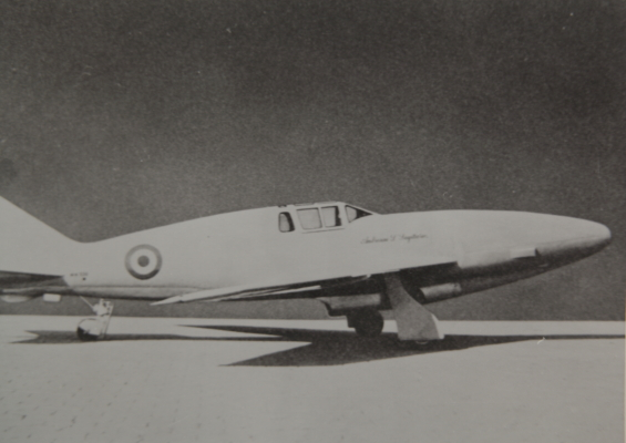 Catalog #: 00074860 Manufacturer: Ambrosini Designation: S Official Nickname: Sagittario